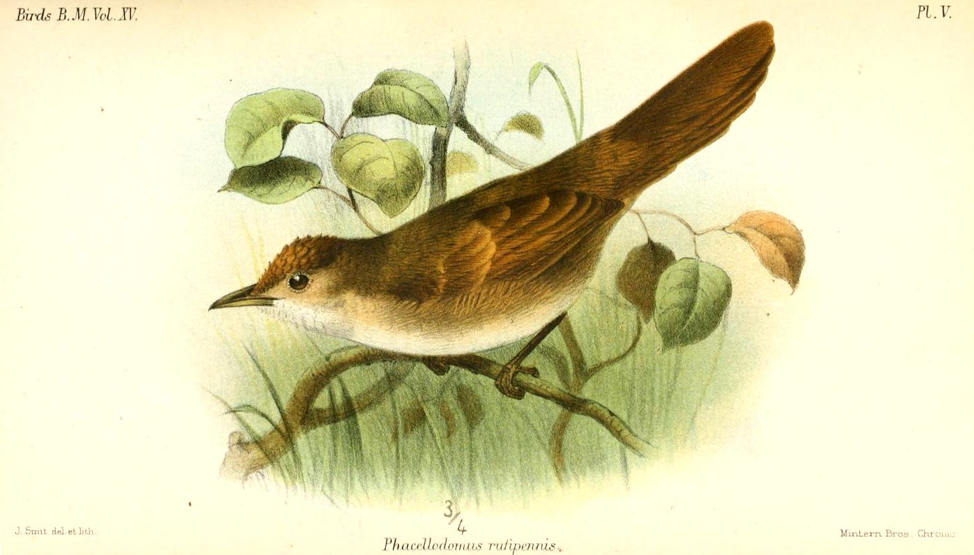 Greater Thornbird